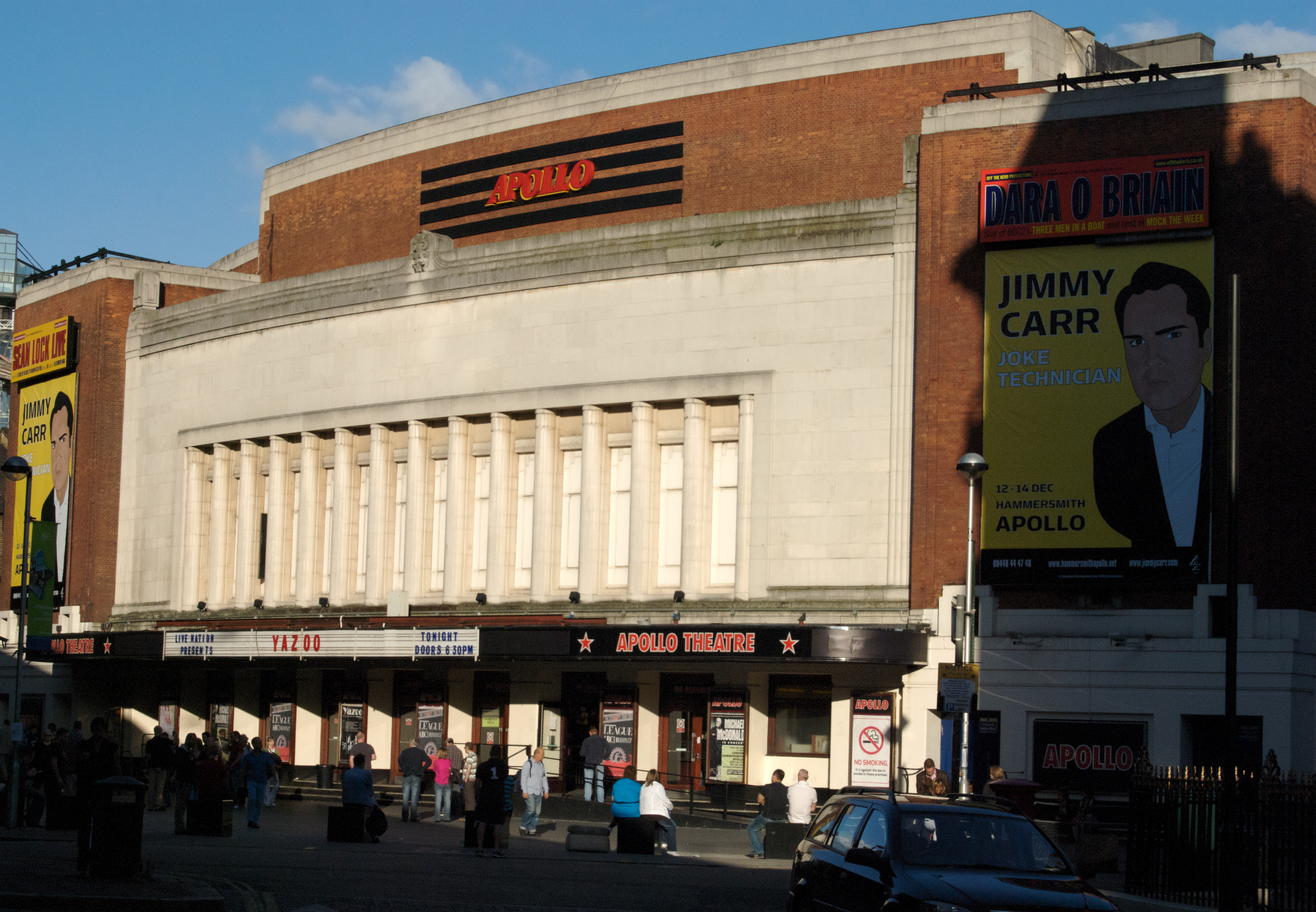 Eventim Apollo exterior, front